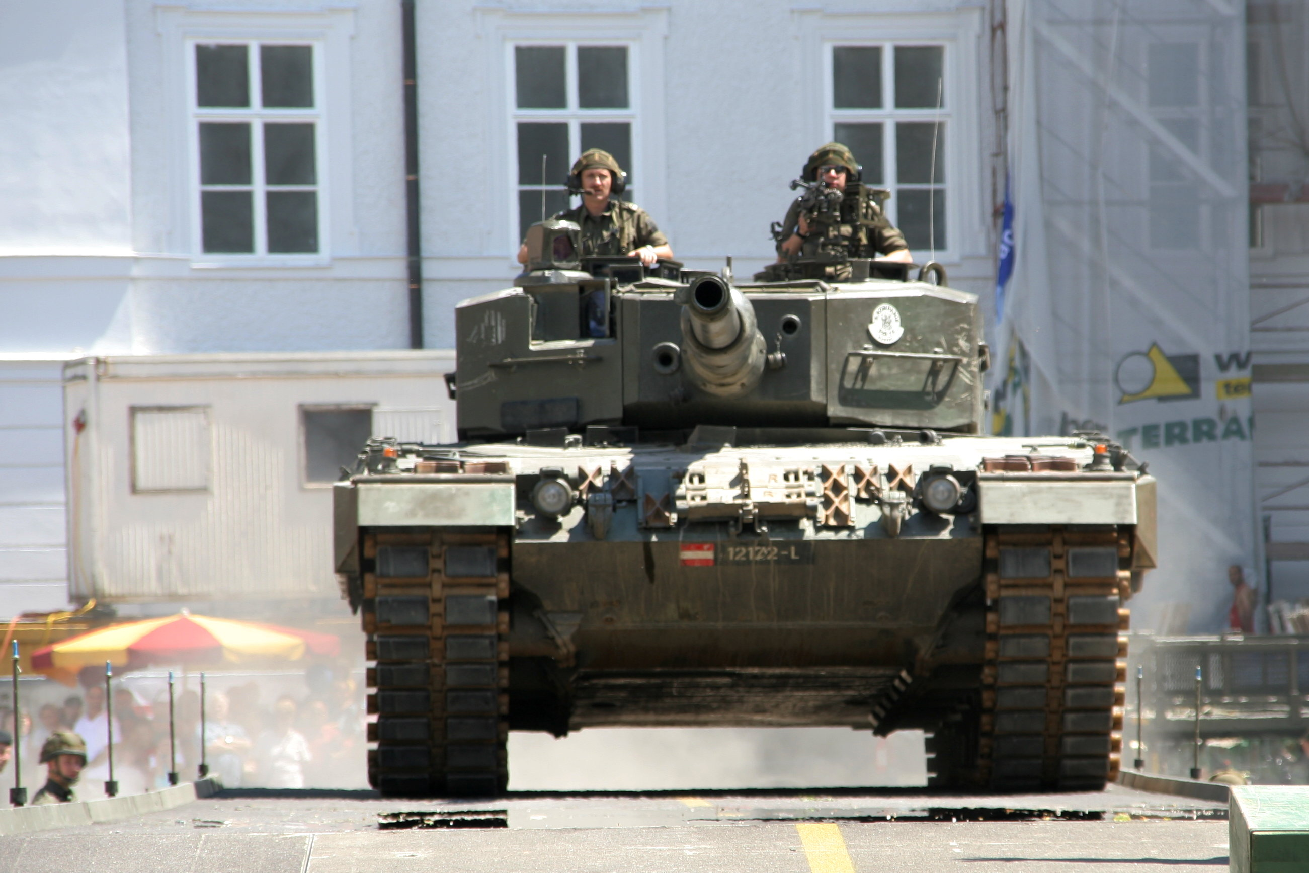 Main battle tank Leopard 2A4 of the Austrian Army (named „Bundesheer“)